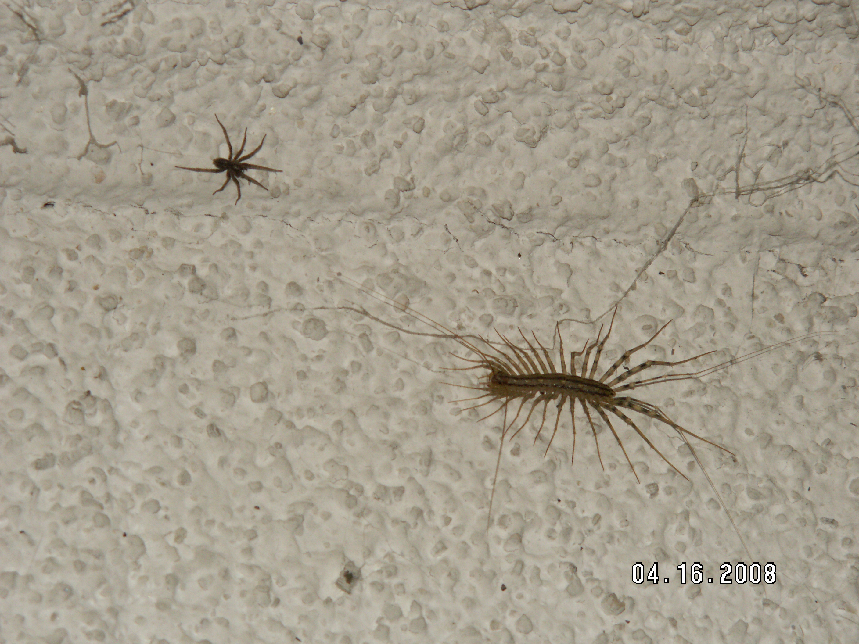 A House Centipede stalking its prey in a basement.